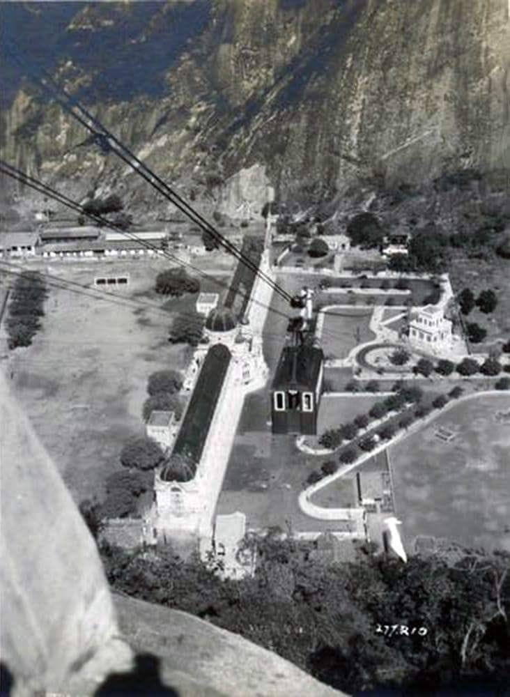 Escola Militar da Praia Vermelha, Rio de Janeiro, Brazil.